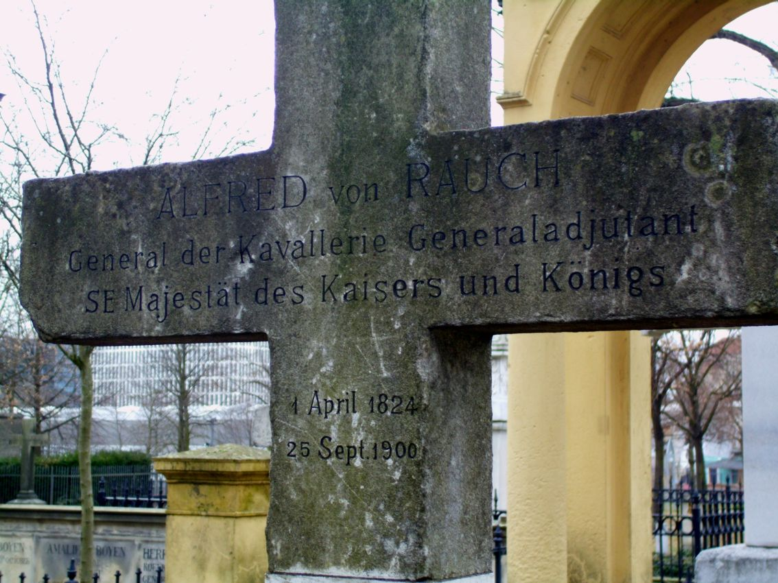 Tomb of Alfred von rauch, Detail